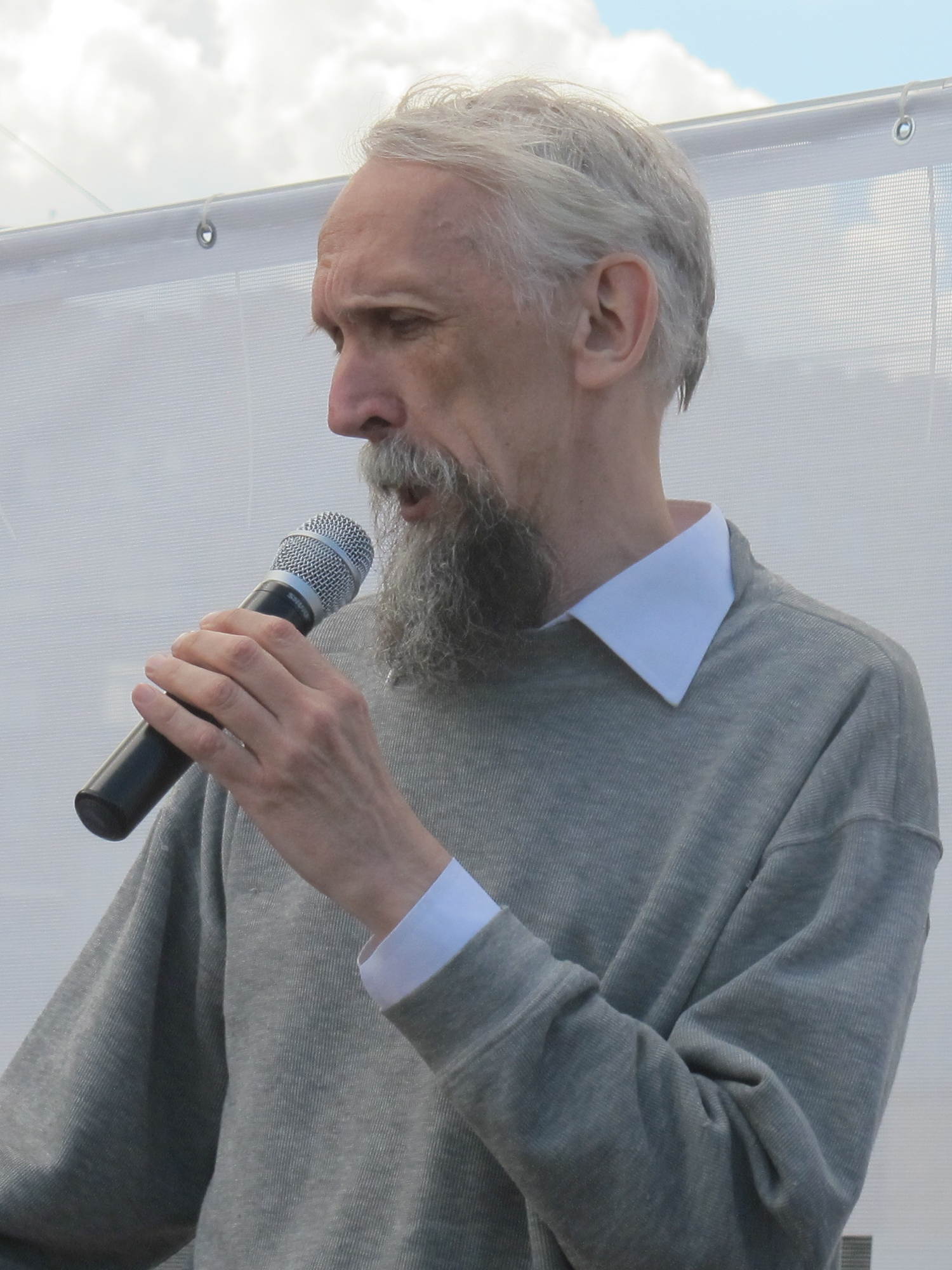 Rally for science and education (Moscow; 2015-06-06)